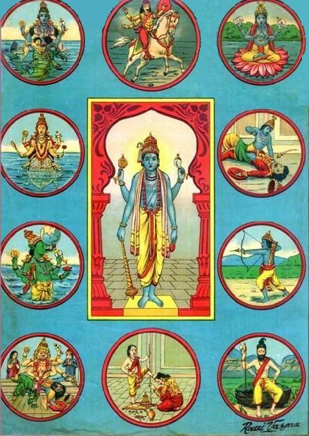 Avatars of Vishnu lithograph by Raja Ravi Varma